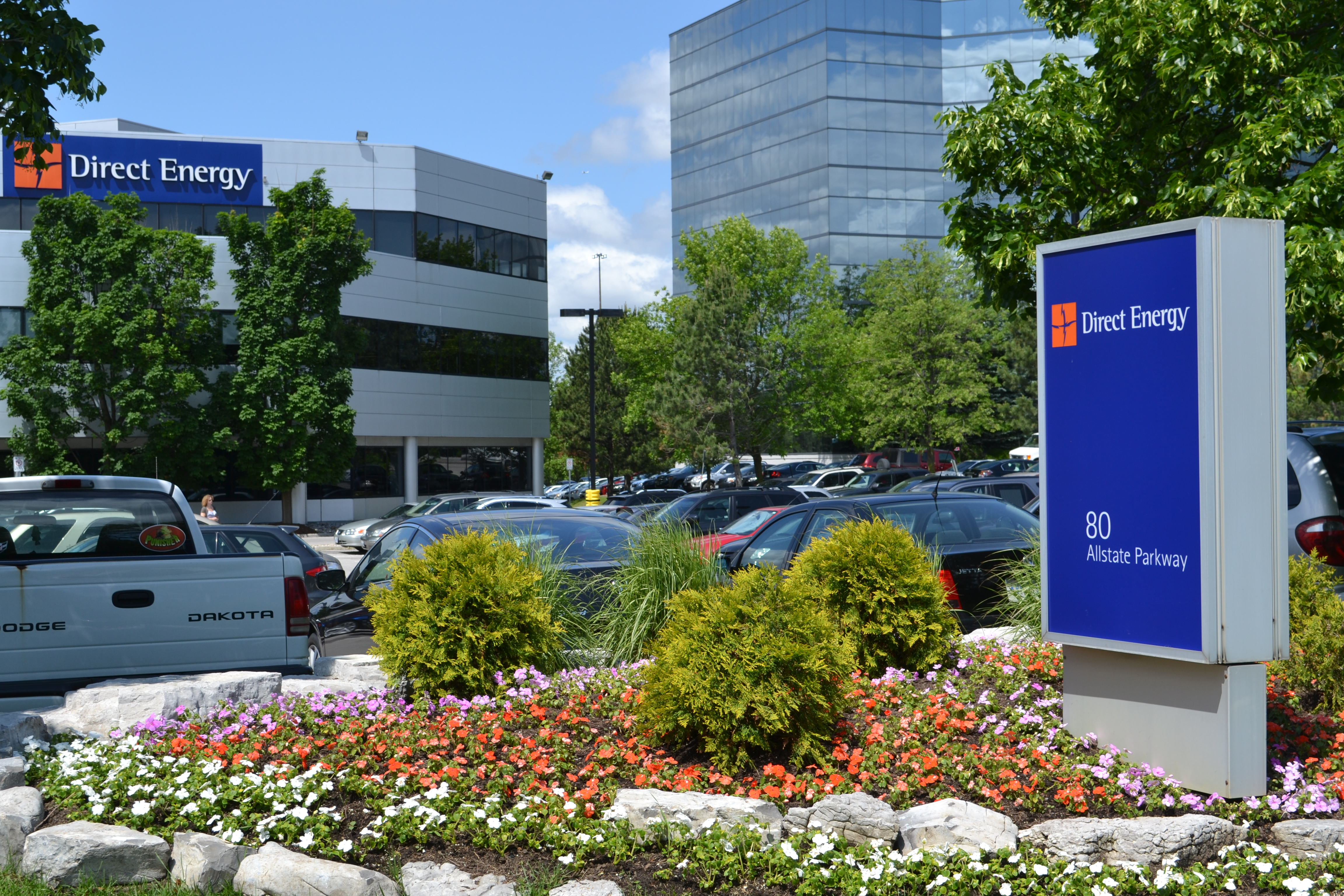 80 Allstate, Direct Energy